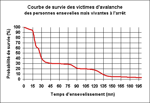 Snow avalanche survival curve, for buried, but living at the end of the flow, victims.